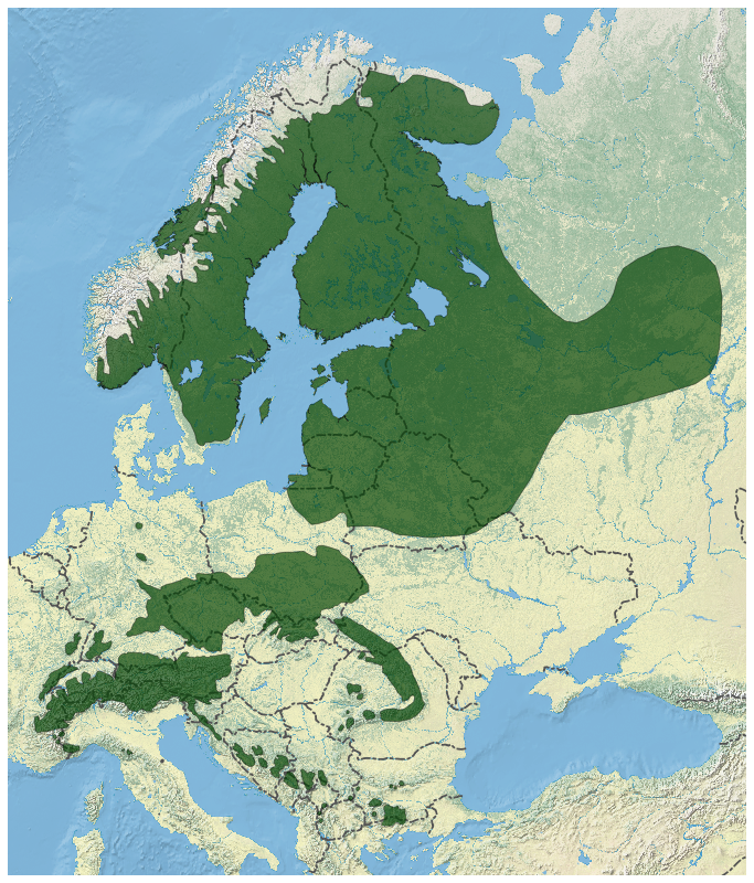 Geographical distribution of the Norway Spruce Picea abies. The map was created using the QGIS, a Free and Open Source Geographic Information System, version 2.12.3-Lyon.